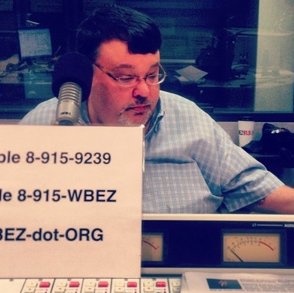 Sound Opinions host and former Chicago Sun-Times music critic Jim DeRogatis at the studios of public radio station WBEZ in Chicago in 2012 during a pledge drive.